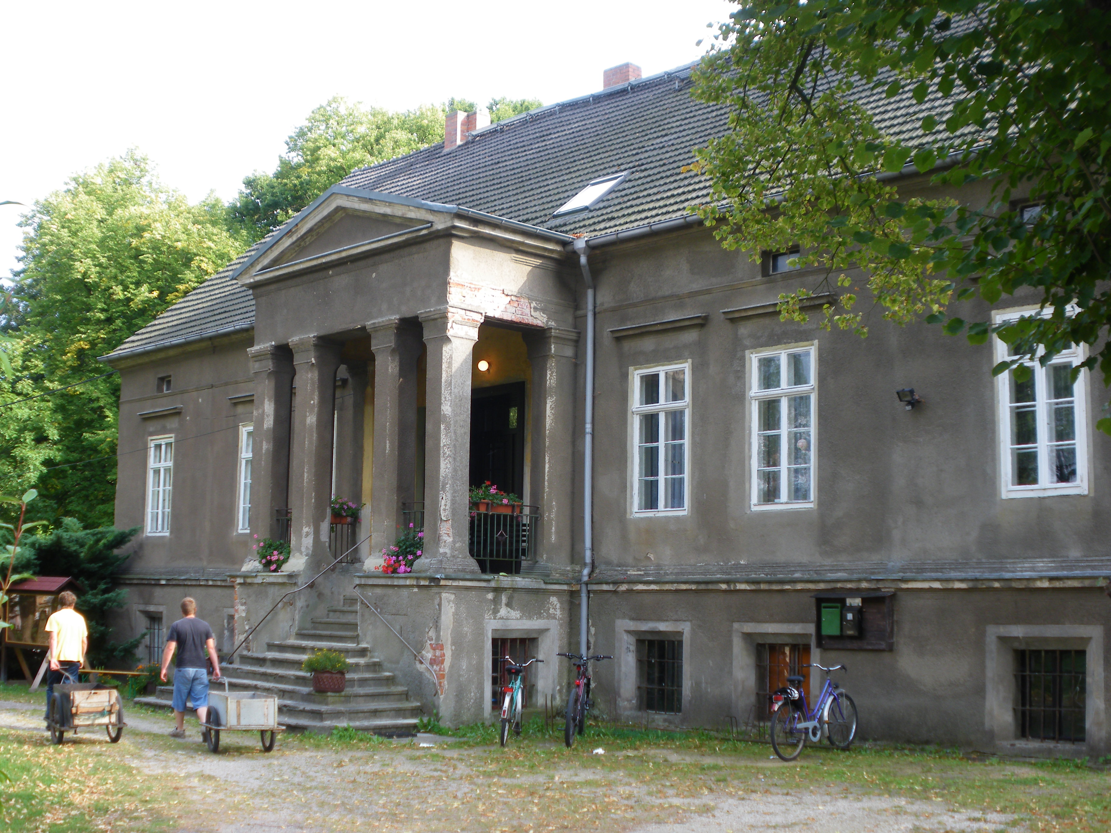 manor in Gross-Mehssow, Calau, Brandenburg, Germany